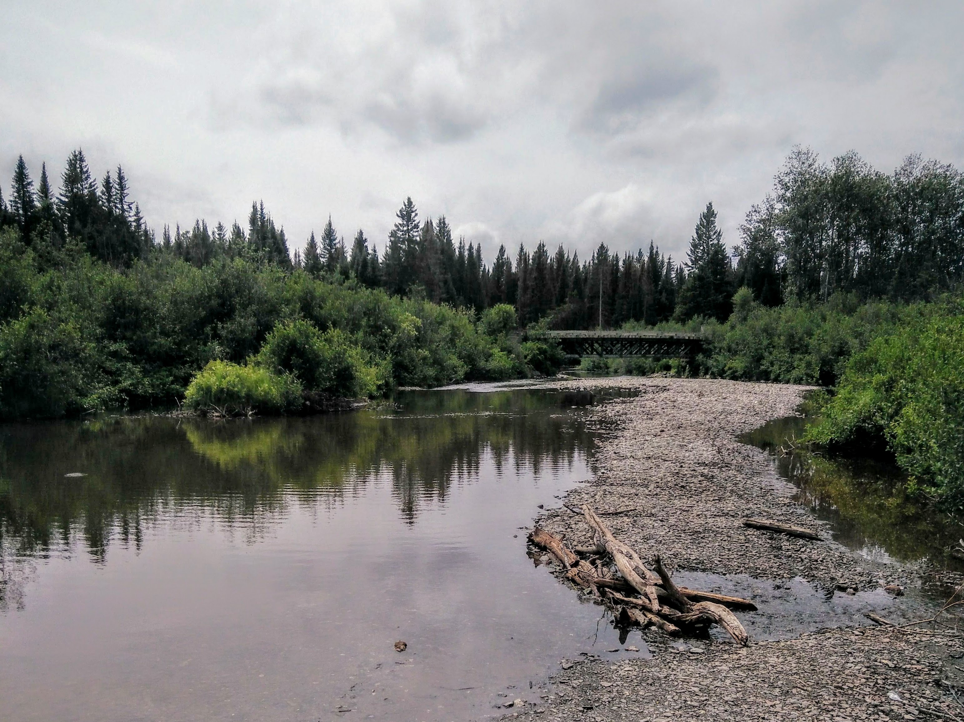 Little river Matane, near La Grande Écluse, Saint-Jean-de-Cherbourg, Québec, Canada